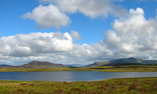 Llyn y Dywarchen. Llyn y Dywarchen with Arenig Fach and Arenig Fawr beyond.